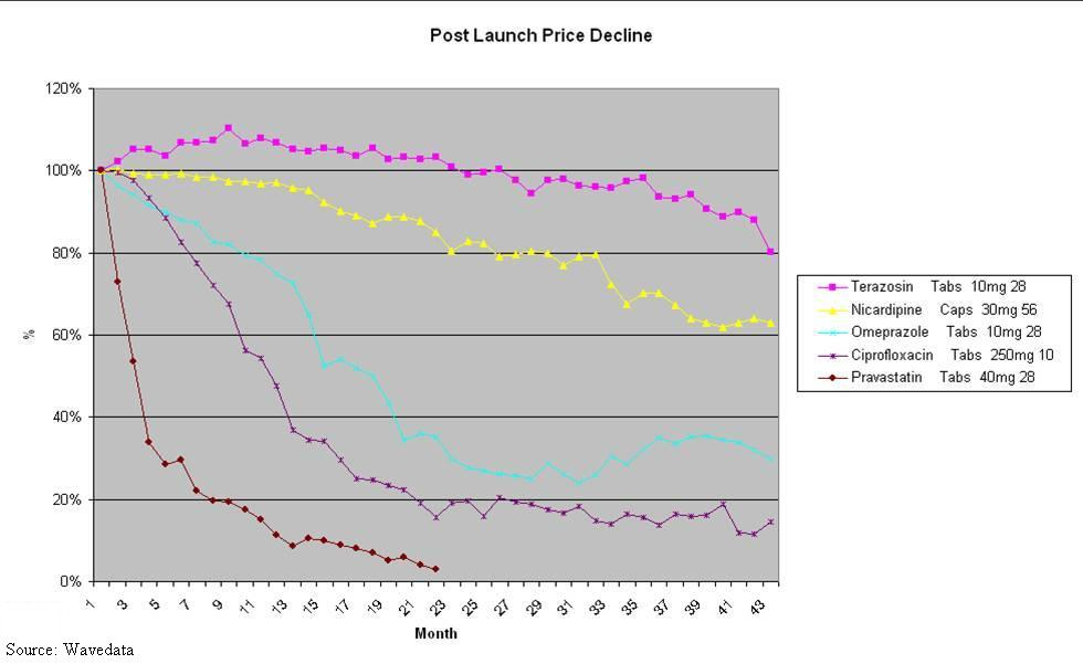 Differing rates of price decline in generic drugs